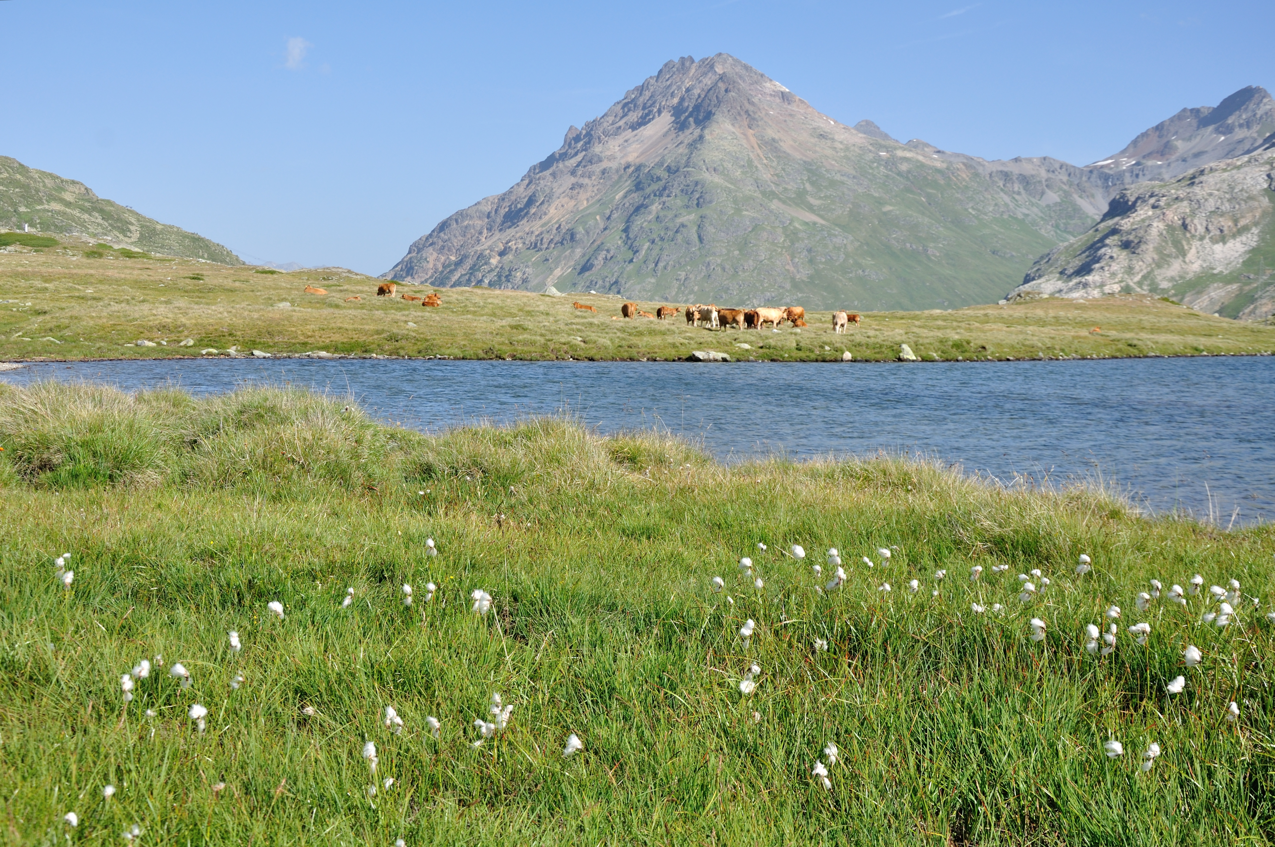 Switzerland, Graubünden, views along the hiking trail from Bernina Pass to Alp Grüm